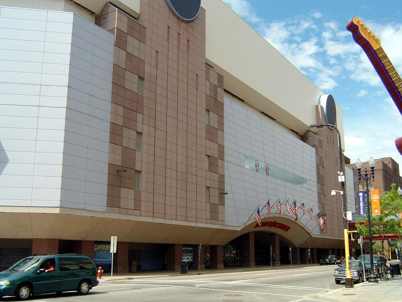 Target Center arena in Minneapolis, Minnesota. Photo taken on June 5, 2005 by User:Mulad. Hereby released into the public domain.